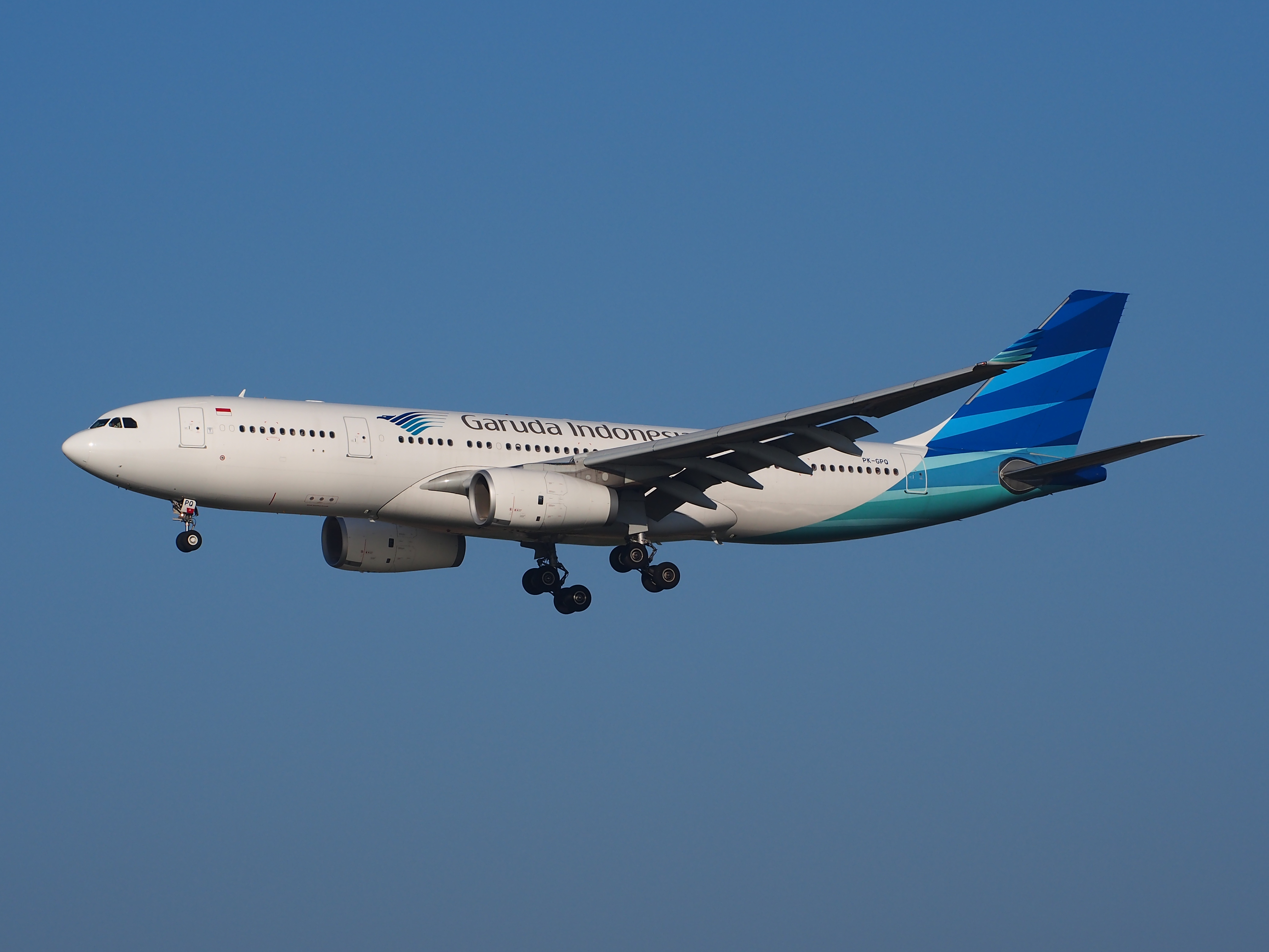 Photographed at Schiphol (AMS - EHAM), The Netherlands.